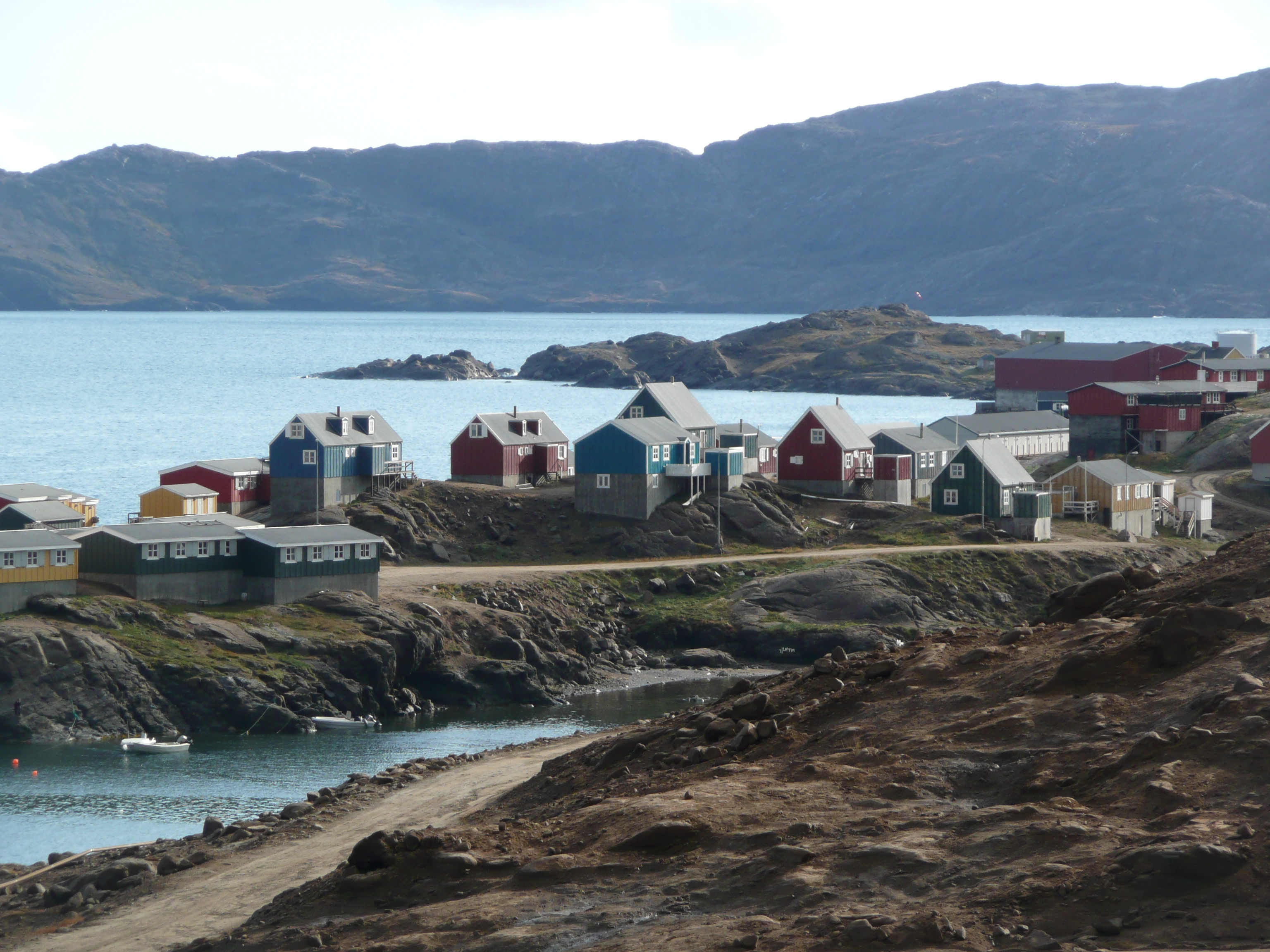 Tasiilaq, eastern Greenland